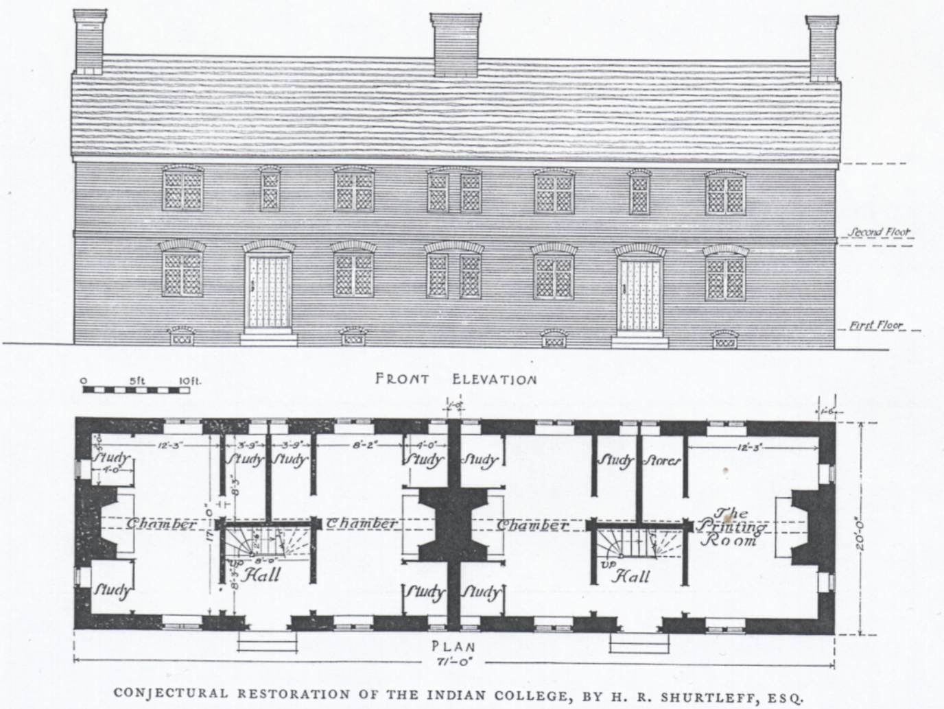 Indian College at Harvard College conjectural image drawn by Harold Robert Shurtleff